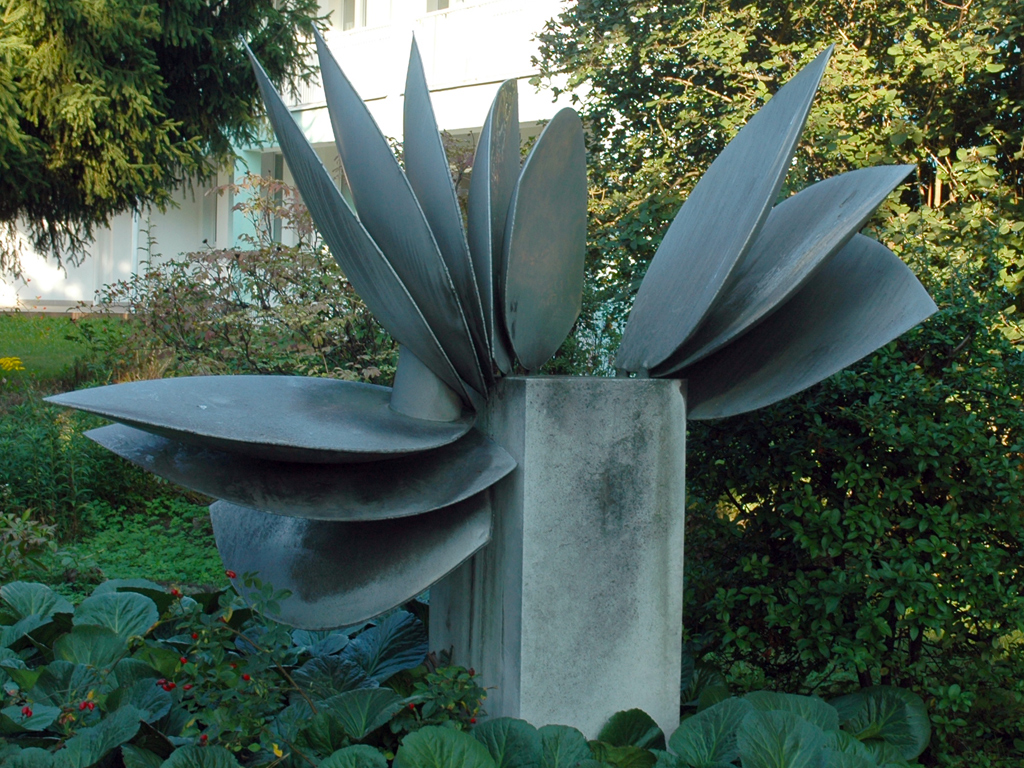 Sculpture in public space, Leaf in motion, Prague 9, by Czech sculptor Eva Kmentová (1973)